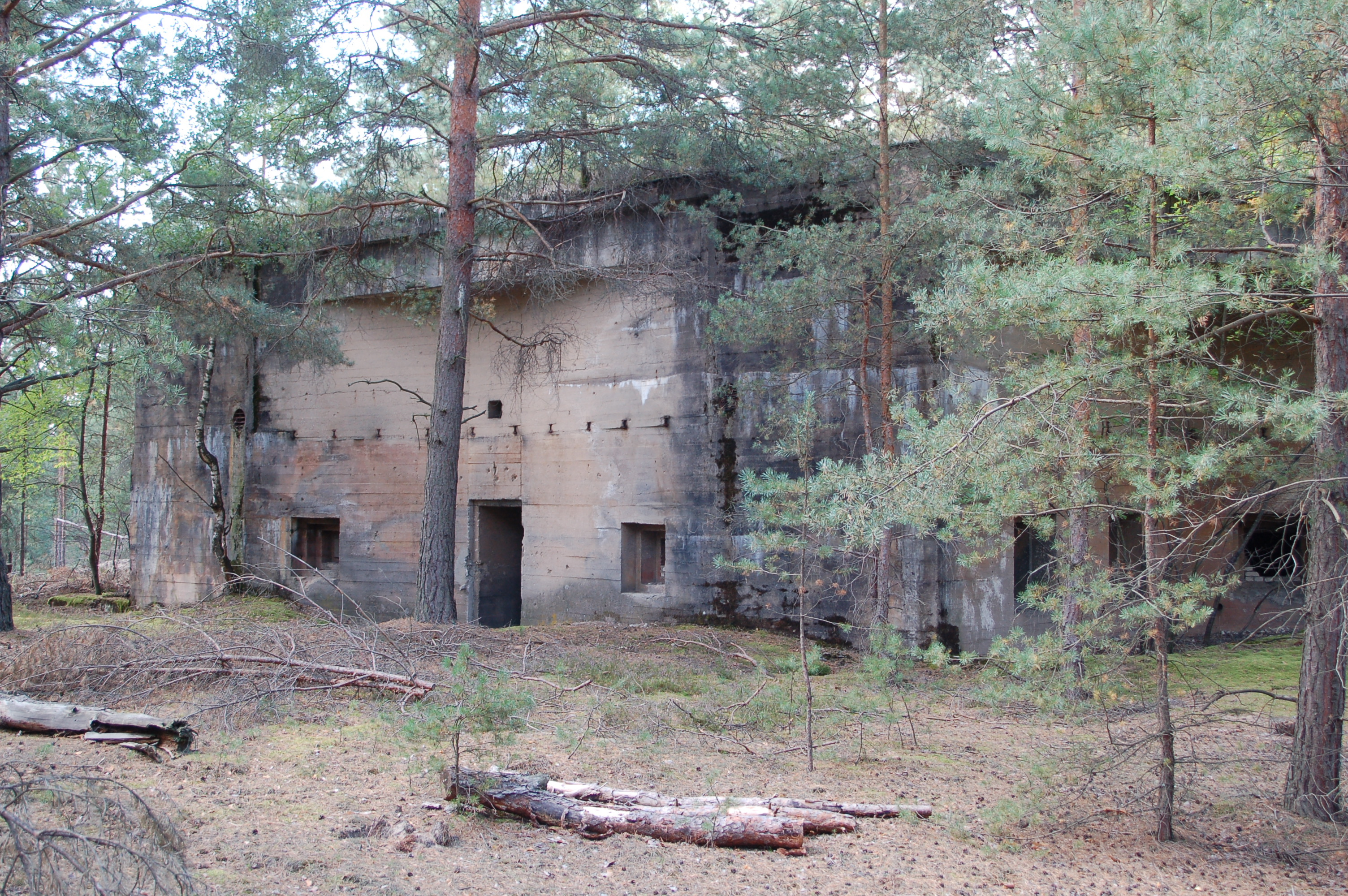 A one from the many german bunkers in Lower Silesian Wilderness (Poland) near Szprotawa